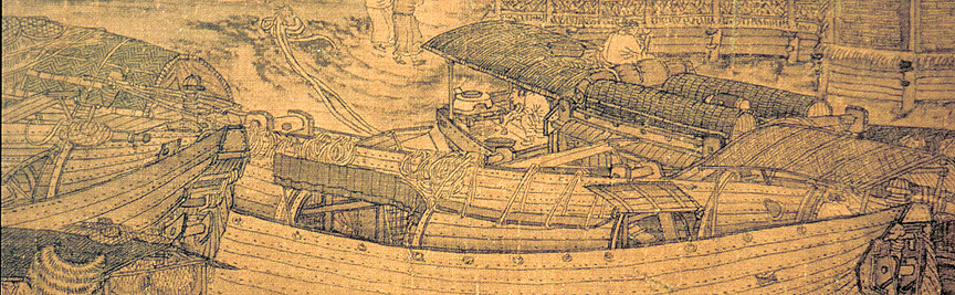 Close-up detail of the Chinese cityscape handscroll Along the River During Qingming Festival, ink and colors on silk, 25.5 × 525 cm.